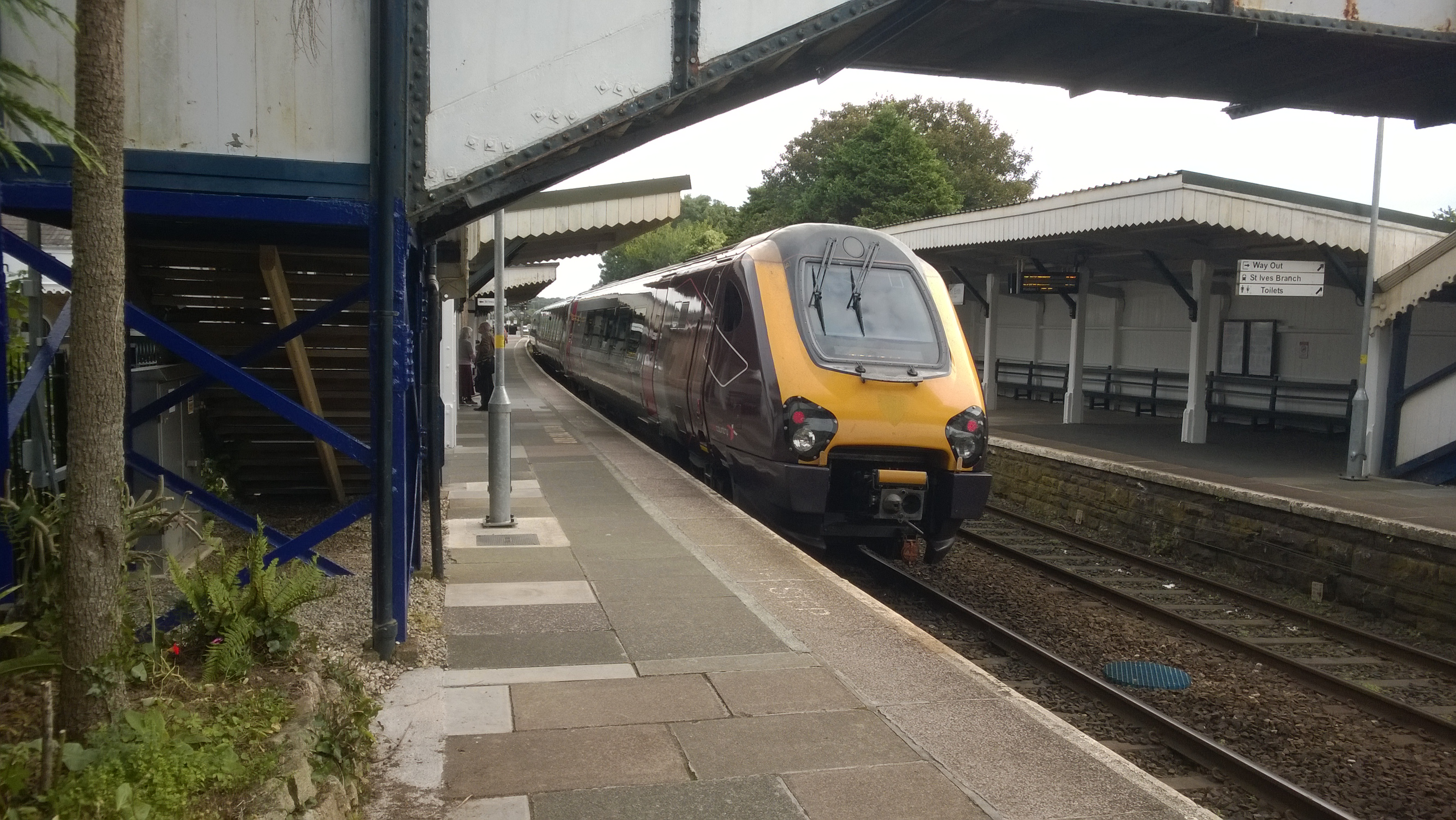 CrossCountry's 220011 standing at St Erth station, working a service from Penzance to Manchester Piccadilly.